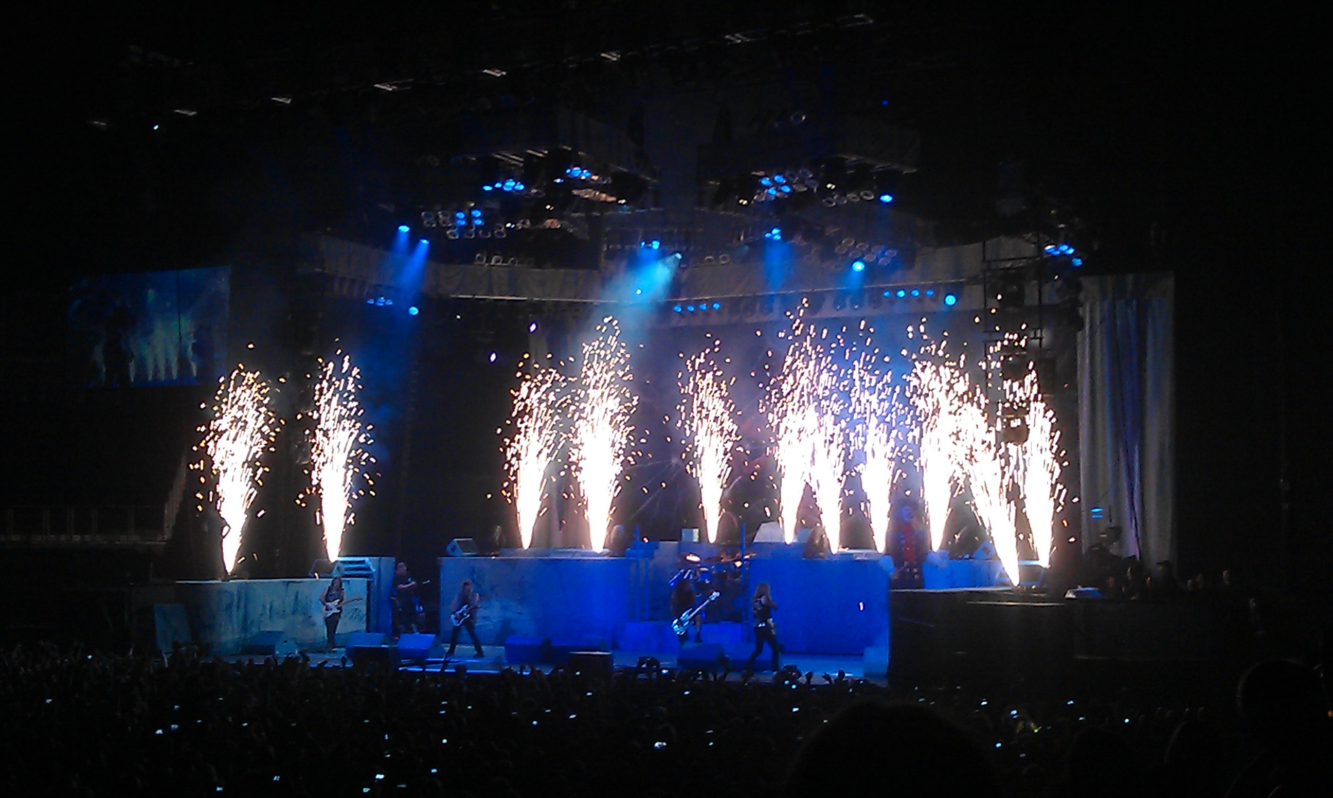 Iron Maiden